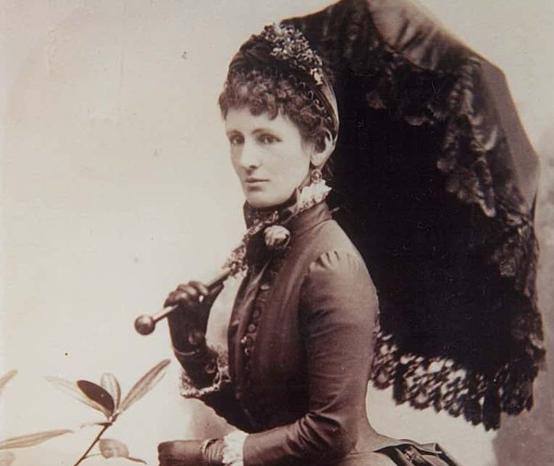 Lady Janet Clarke of Rupertswood, Sunbury, Victoria, Australia